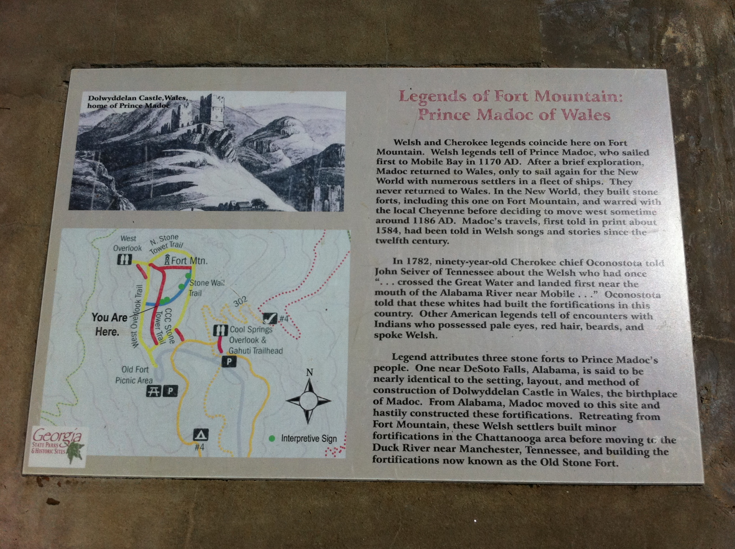 Plaque at Fort Mountain in Georgia